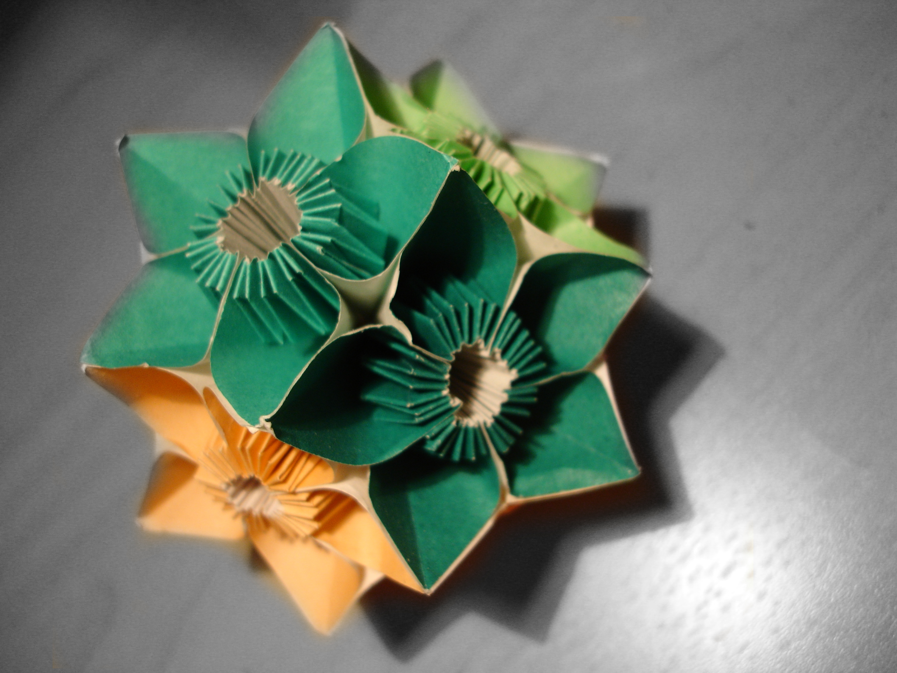 Traditional Japanese origami model.